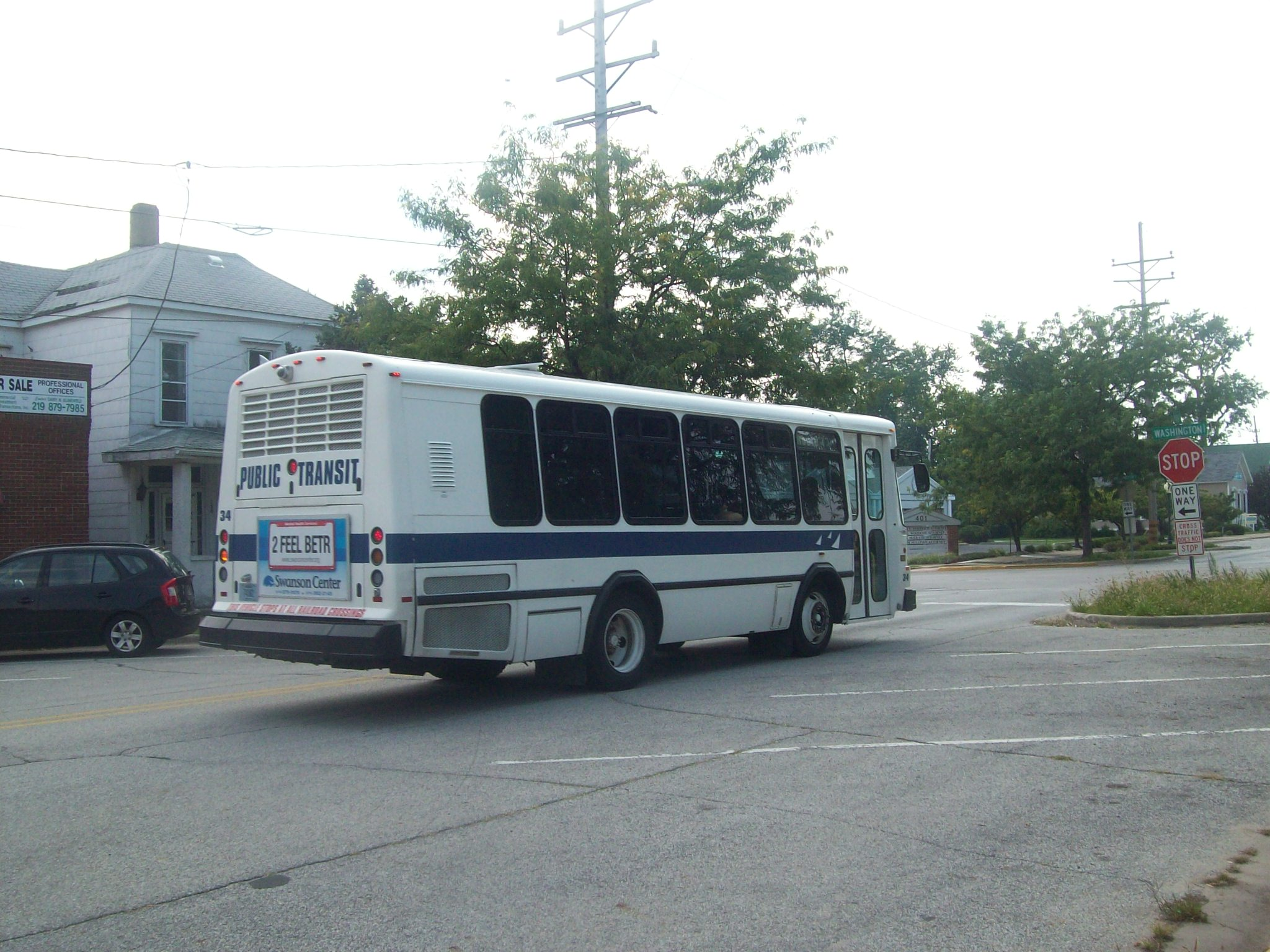 Michigan City Transit bus route 3 stops near Carrol Avenue NICTD station